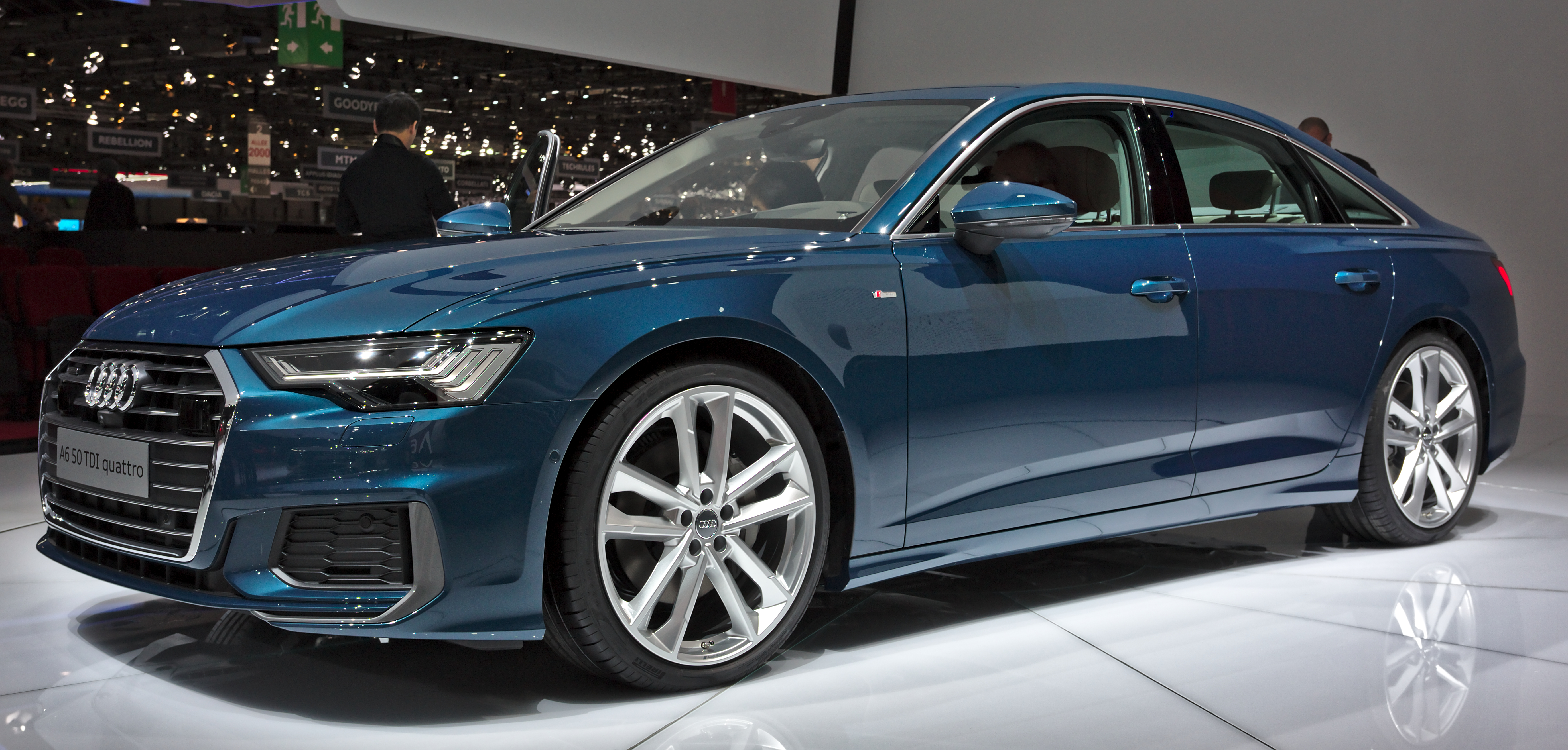 Audi A6 C8 at Geneva Motorshow 2018